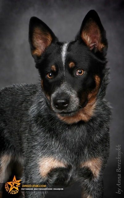 Dingostar kennel based in Russia